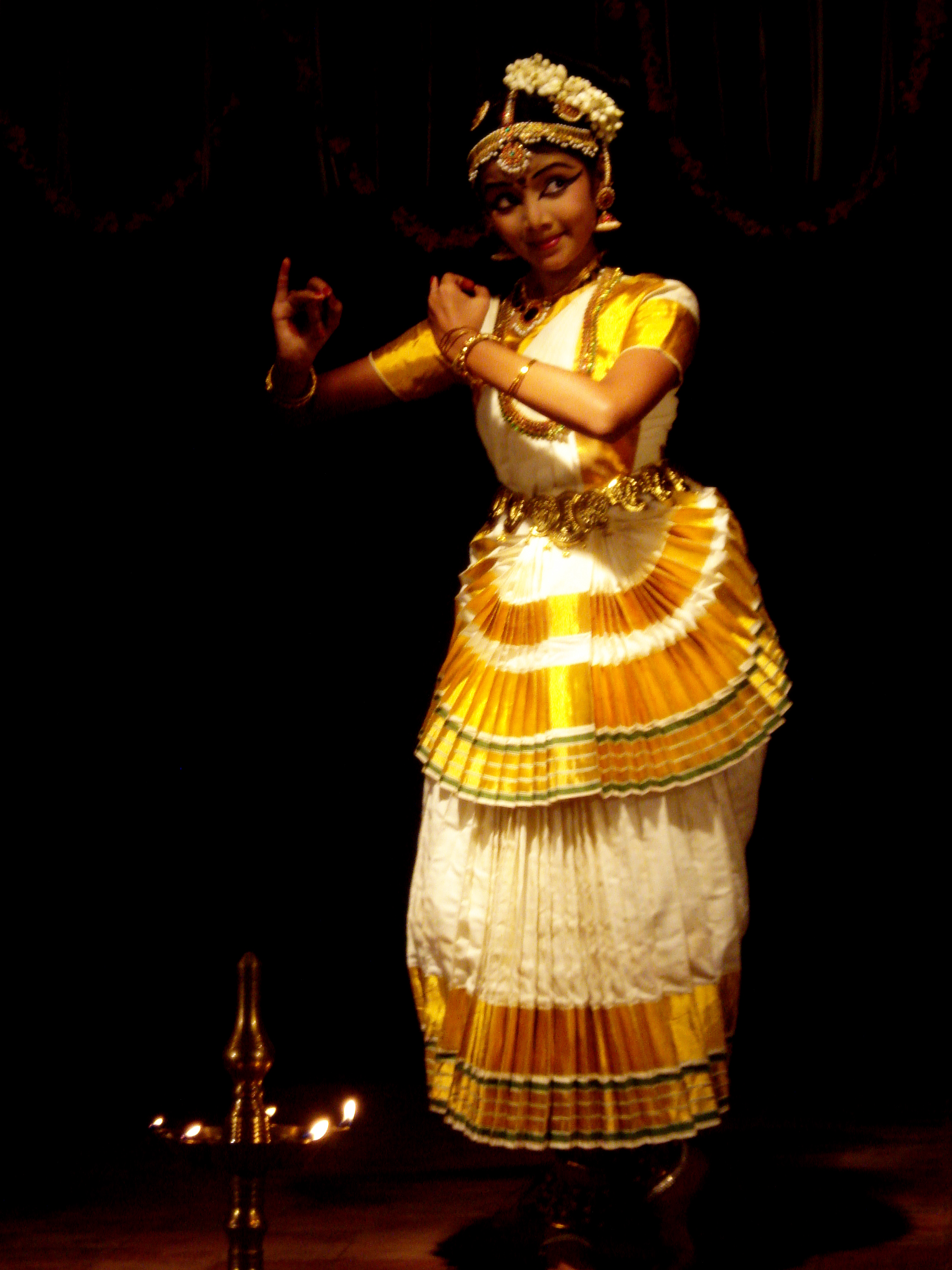 Mohiniyattam by Sandra Pisharody